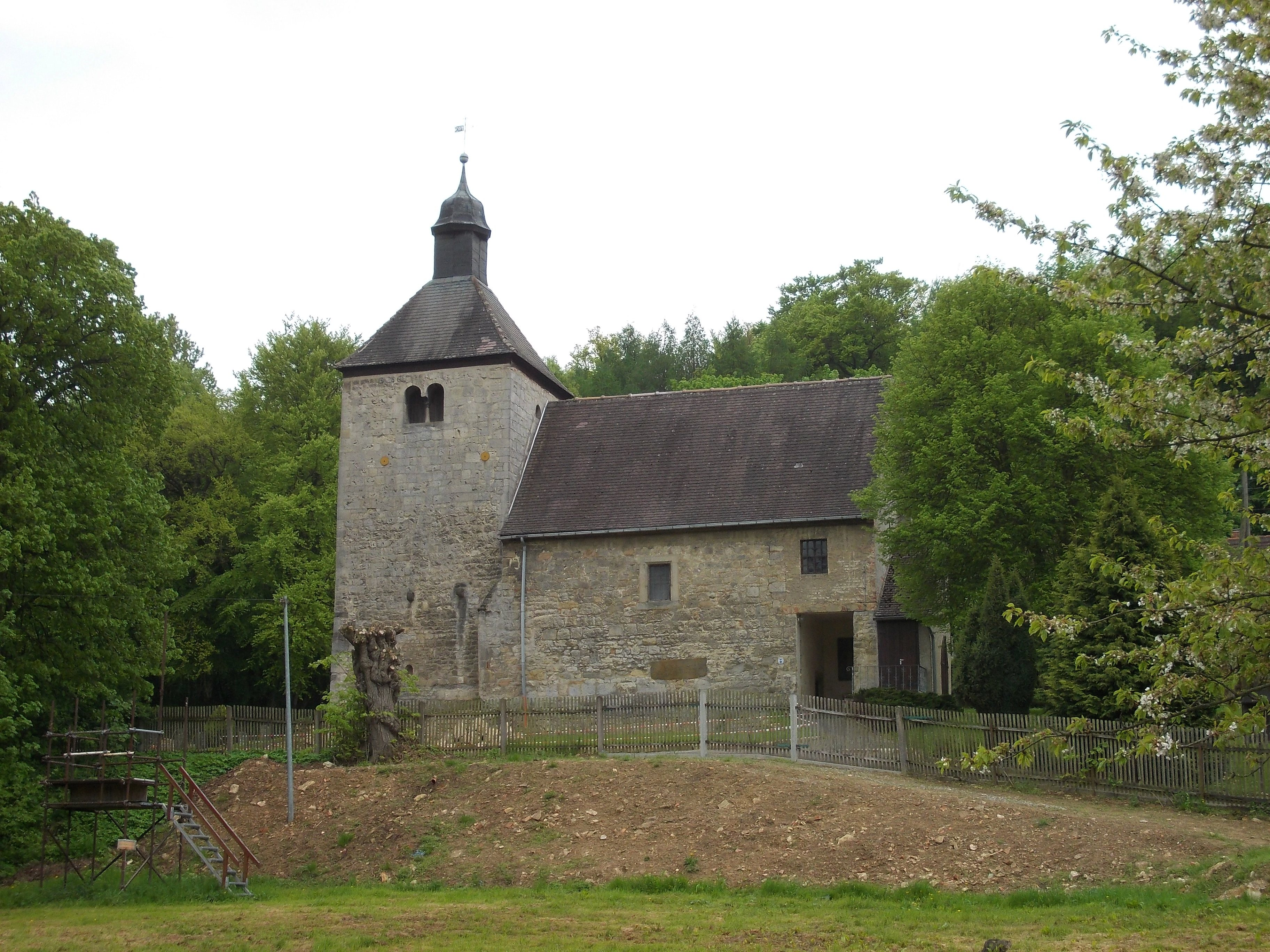 Burghessler church (An der Poststrasse, district: Burgenlandkreis, Saxony-Anhalt)